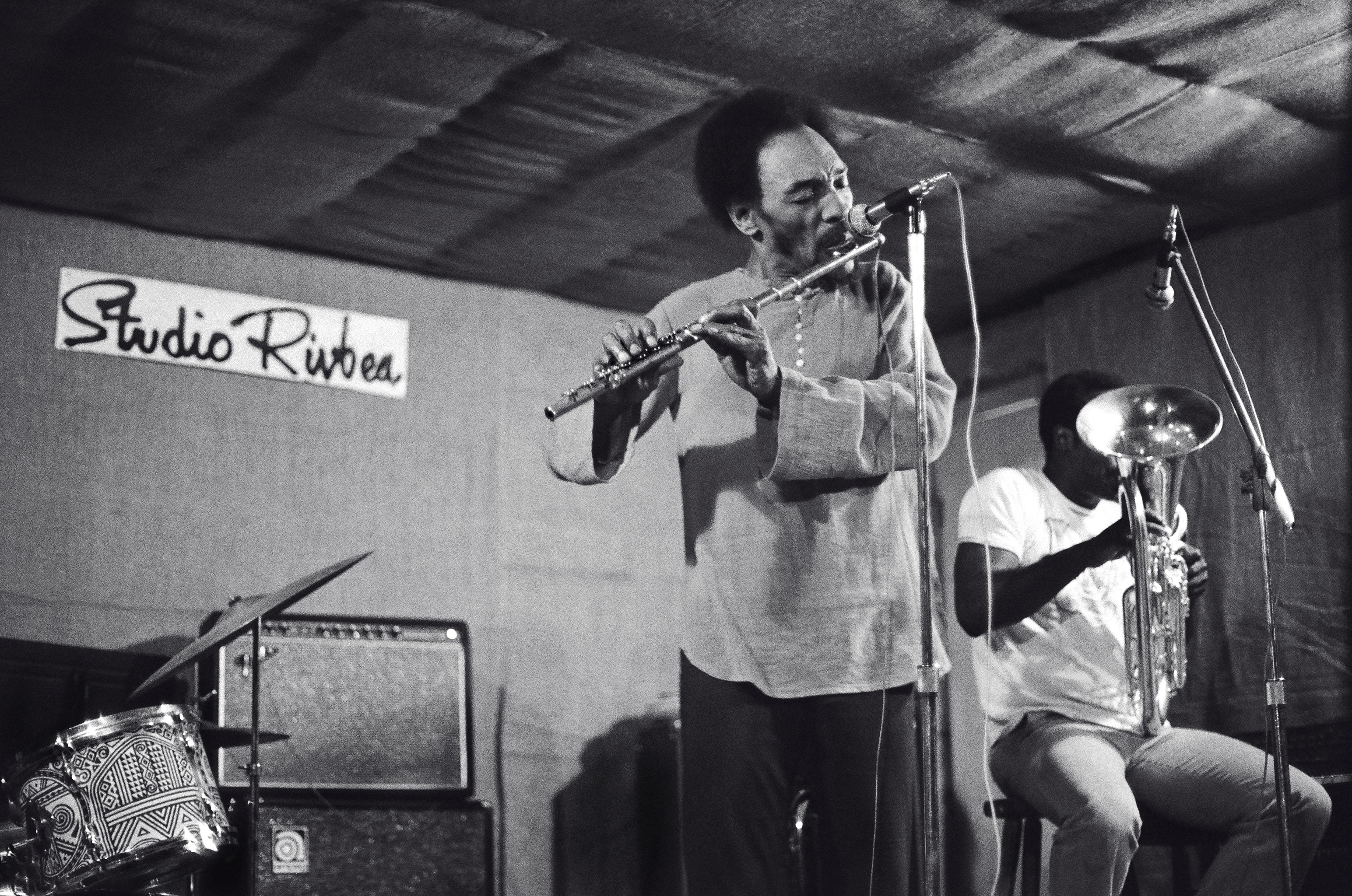 Sam Rivers and Joe Daley NYC - July, 1976